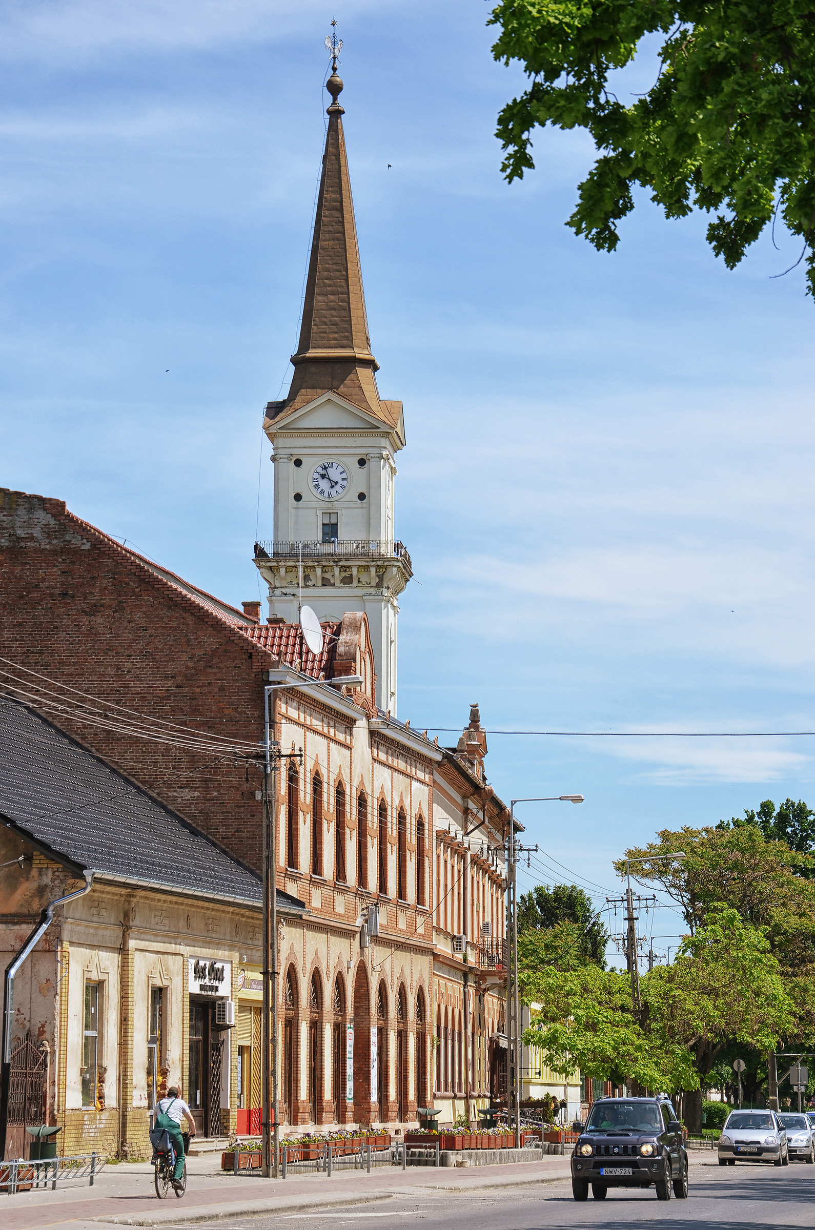 The northern side of the main street in Dévaványa, Hungary